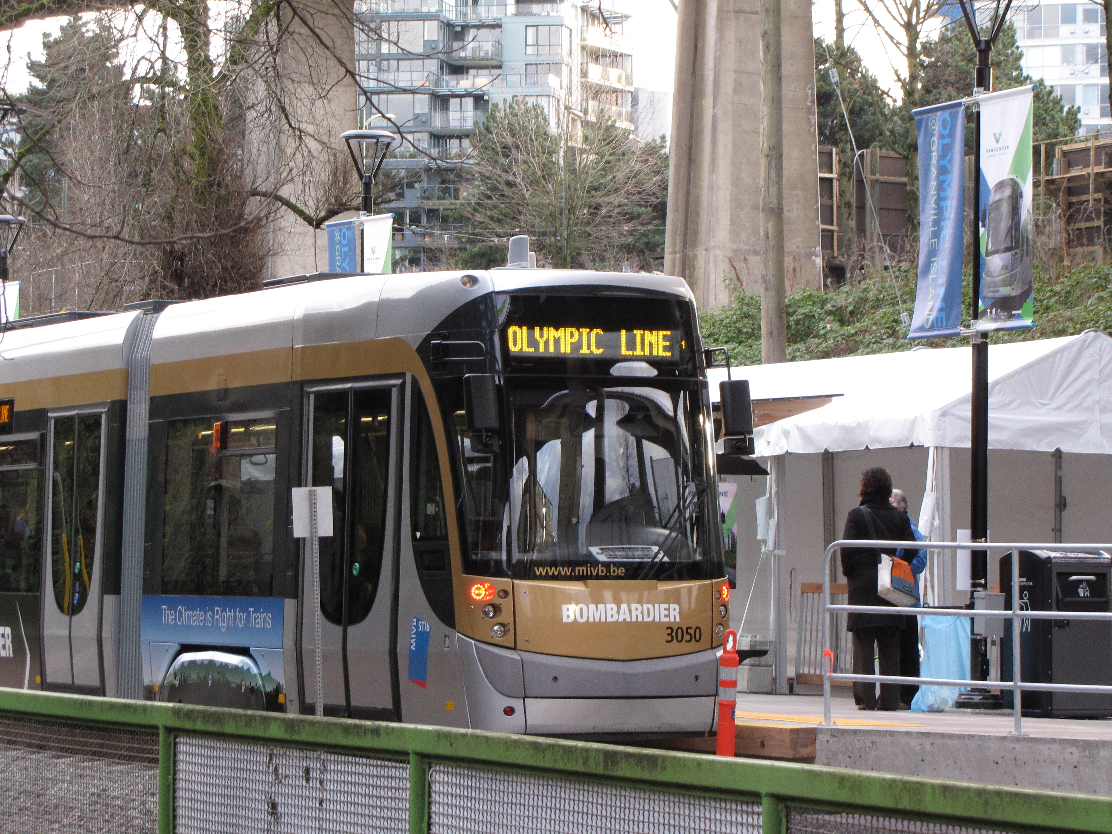 The Olympic Line – Vancouver’s 2010 Streetcar – is a state-of-the-art, accessible and sustainable transportation project that connects Granville Island to the Canada Line Olympic Village Station. Vancouver’s partner in this project, Bombardier Transportation, brought two modern, accessible streetcars on loan from Brussels, Belgium to Canada. Bombardier is operating and maintaining the vehicles during the demonstration project. The Olympic Line runs about every six to ten minutes on approximately 1.8 kms of dedicated track. The demonstration streetcar will extend the regional transit network during the 2010 Winter Games and decrease the number of private vehicles, motor coaches and transit diesel buses to and from Granville Island.